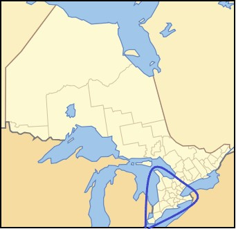 Map of Ontario, Canada, with the location of the Ontario peninsula circled. Based on File:Ontario Locator Map.svg created by user Vidioman released to the public domain.